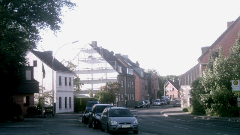 Lockhütter Straße, Lockhütte, Mönchengladbach, Germany.